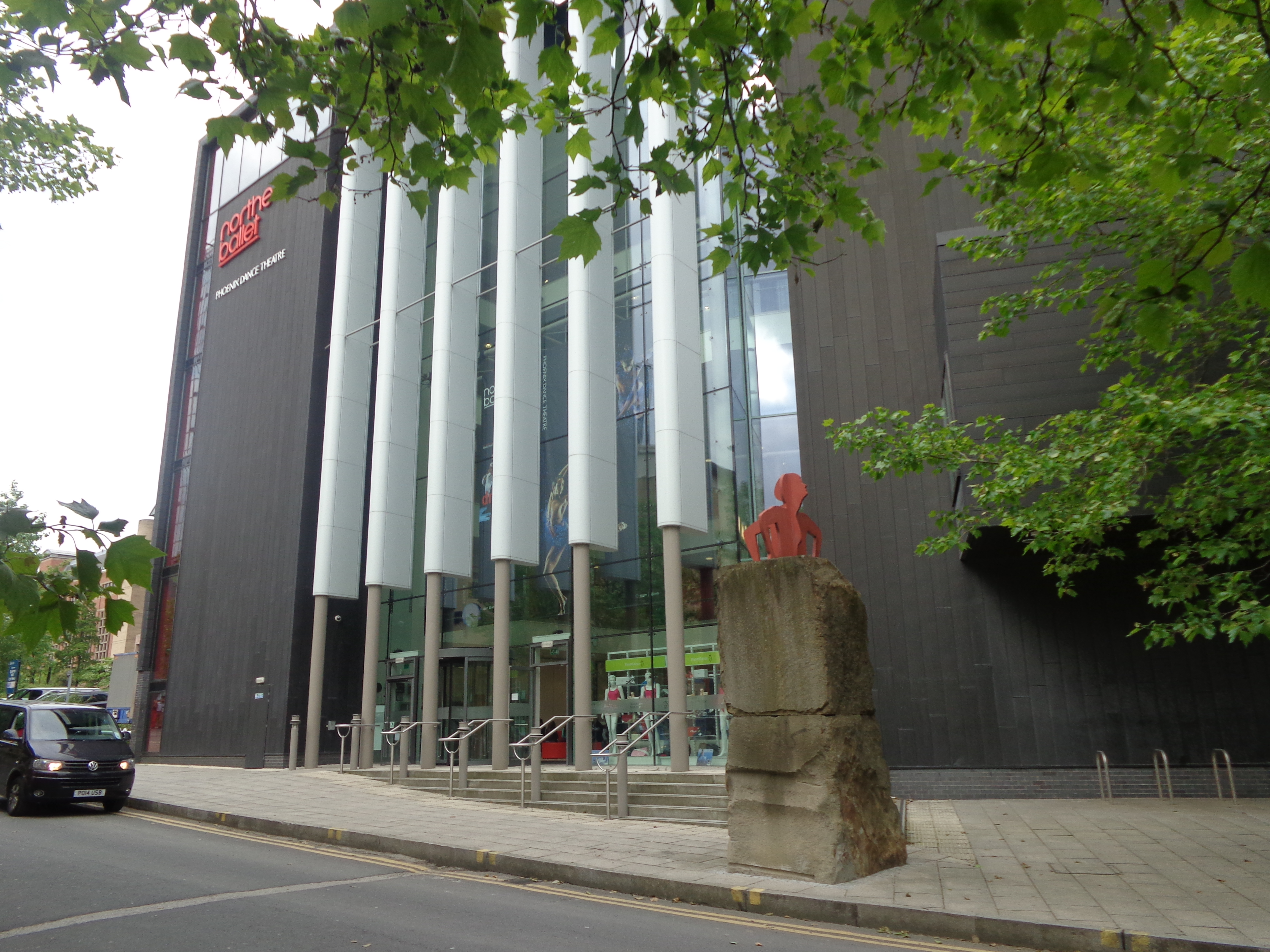 Phoenix Dance Theatre, Leeds, West Yorkshire. Taken on the afternoon of Friday the 30th of May 2014.